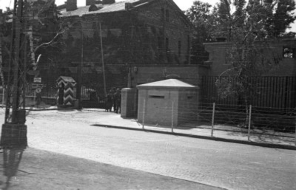 Month before WarsawUprising: German guards next to a guardhouse and a bunker at the Puławska Street gate to the base of air defence units (Flakkaserne) located at the old Polish base between Puławska and Rakowiecka Streets.)